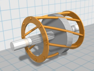 Induction motor twisted (exxagerated for clarity) squirel cage illustration